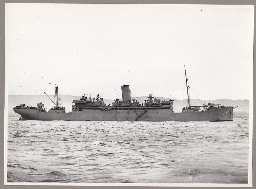 HMS Cavina, a 6,907 GRT, twin-screw banana-carrying refrigerated steamship built by Alexander Stephen & Sons of Govan, Glasgow in 1924 for Elders & Fyffes. The Admiralty requisitioned her on 6 August 1940 and had her converted into an Ocean Boarding Vessel. On 4 August 1941 she found the German ship Frankfurt in the North Atlantic, forcing the latter to be scuttled. This photograph shows Cavina off Greenock on 10 December 1941. Due to a shortage of refrigerated ships she was returned to merchant service on 9 April 1942. She served with Ministry of War Transport until 1946. Compañia Naviera Lanena bought her in 1957 and renamed her Catusha. She was scrapped in 1958. Photo from original collection of Elders & Fyffes. The company was bought by Irish group FII plc in 1986.